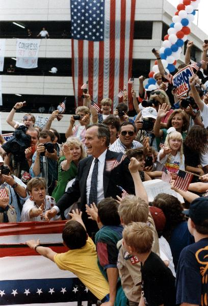 President and Mrs. Bush attend a "Pride in Alabama" Rally at the Riverchase Galleria shopping mall in Hoover, AL. 22 Aug 92